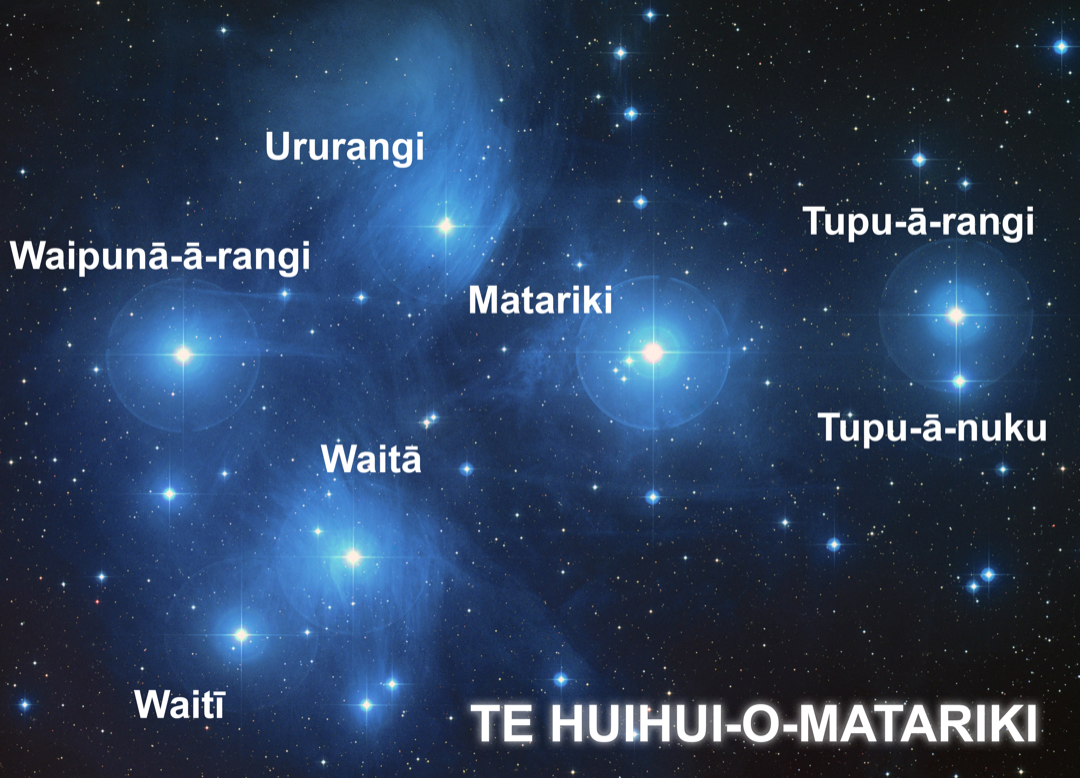 The Matariki star cluster with known Māori names. Constellation also known as The Pleiades